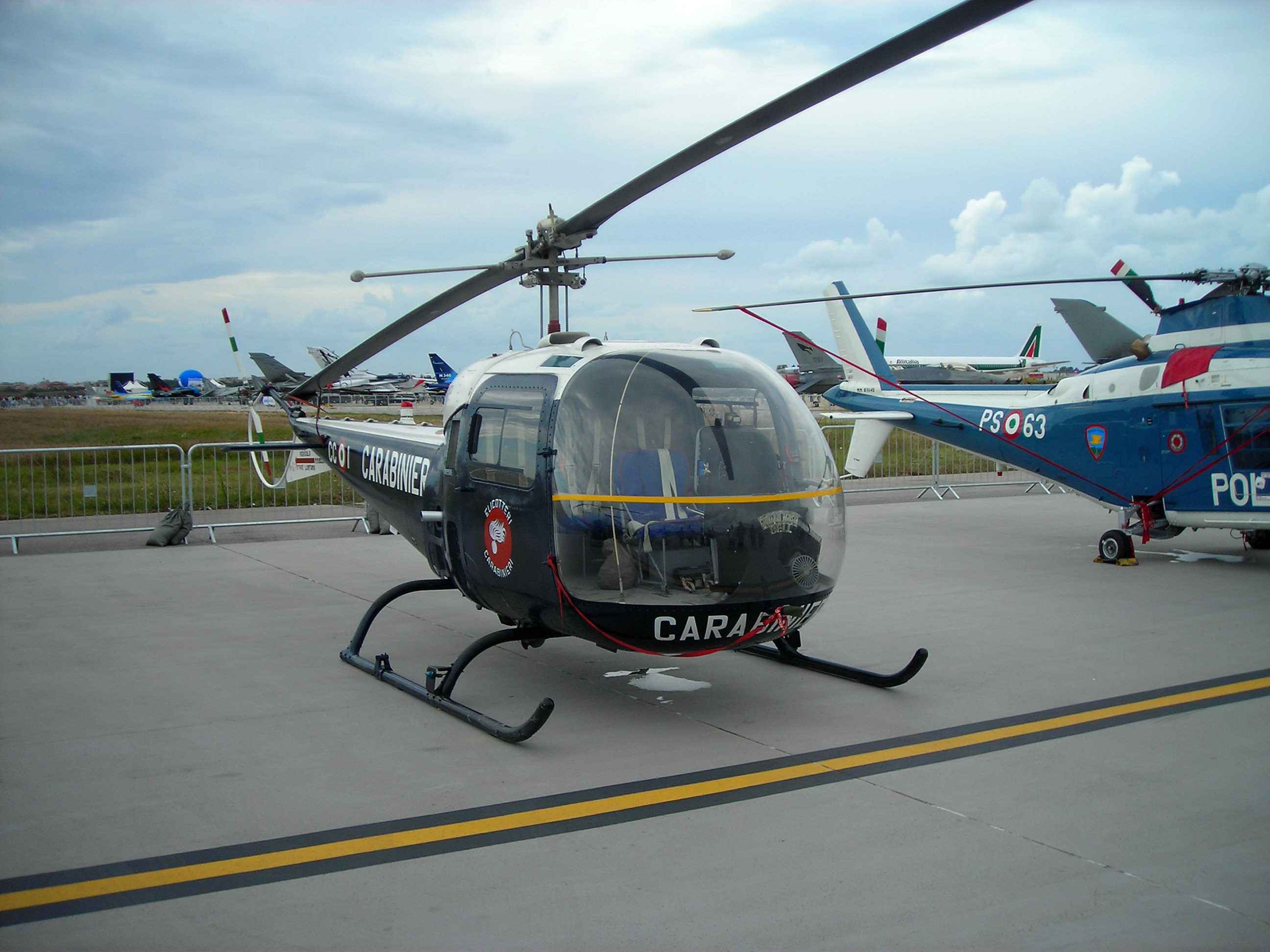 AB.47J3 of Carabinieri Picture taken during "Giornata Azzurra" 2006 (Italian Air Force airshow) at Pratica di Mare AFB, Italy.